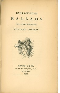 Barrack-Room Ballads and other verses/ by Rudyard Kipling. London: Methuen, 1892